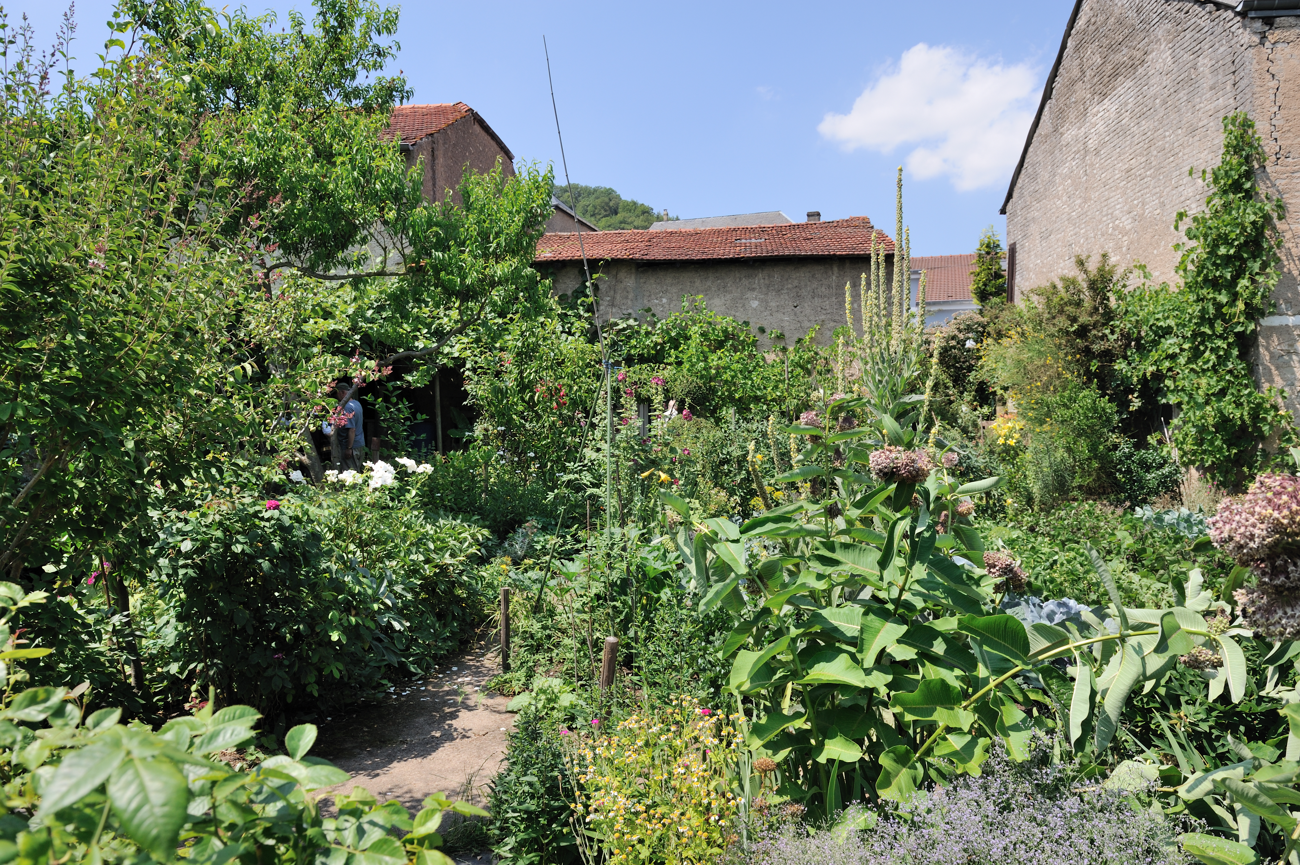 Luxembourg Schwebsange: Jardin méditerranéen (Mediterranean Garden) of the Foundation Hëllef fir d'Natur in July 2010.